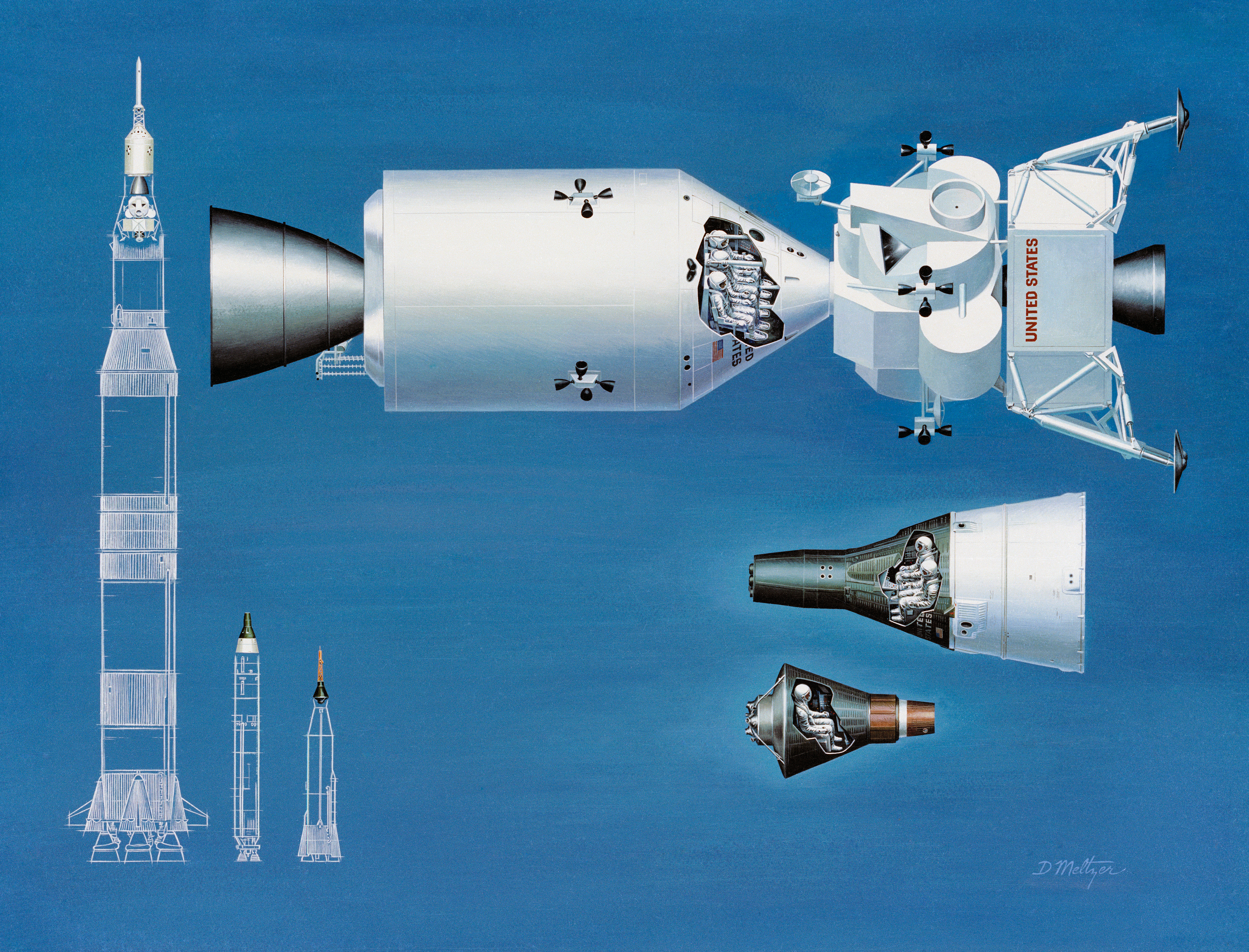 Illustration of the relative sizes of the one-man Mercury spacecraft, the two-man Gemini spacecraft, and the three-man Apollo spacecraft. Also shows line drawing of launch vehicles (Saturn V, Titan II and Atlas-D) to show their relative size to each other and the position of the spacecraft at launch (highlighted at top).